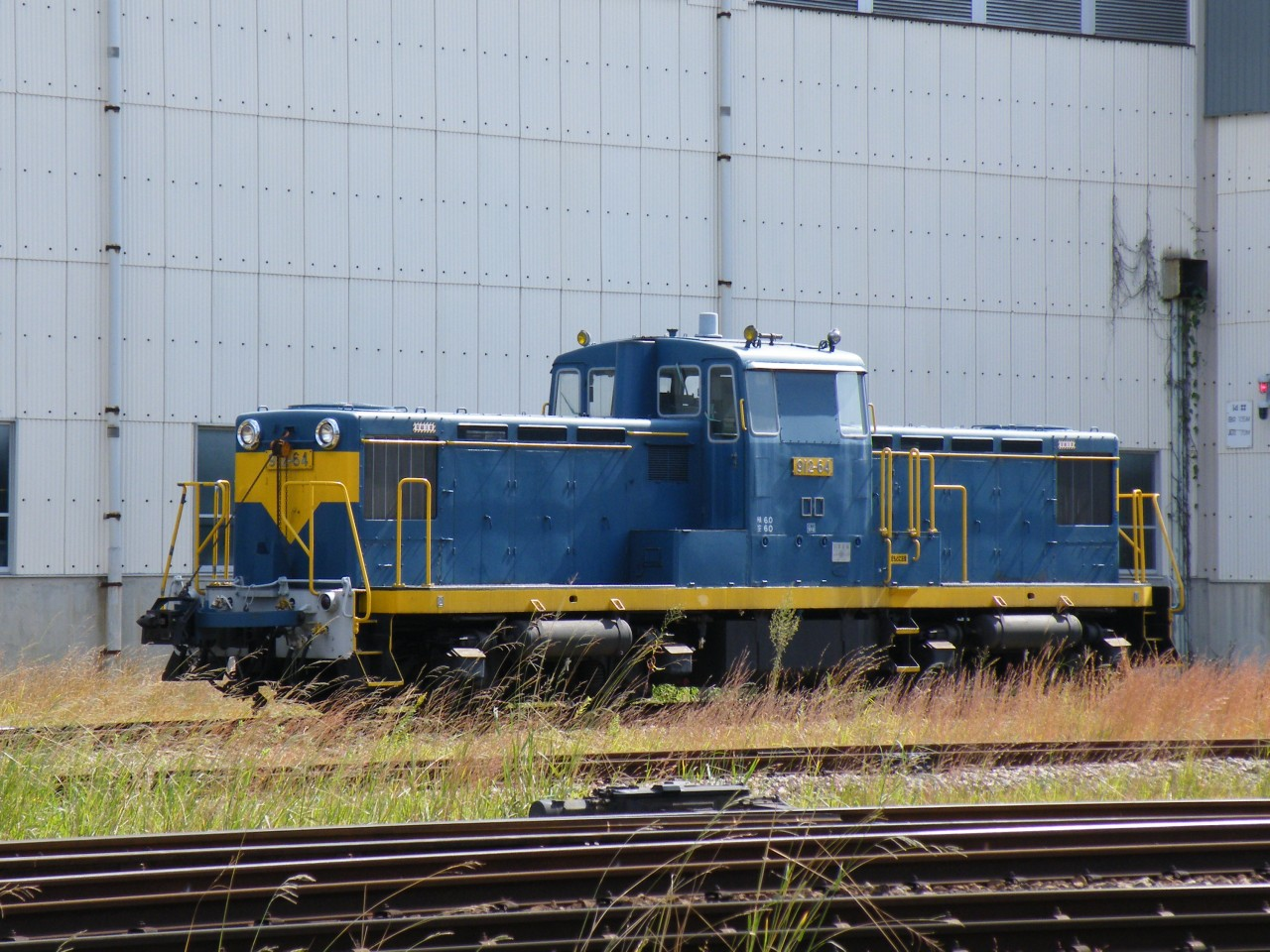 JNR 912 series diesel locomotive at the Hakata Car Maintenance Center